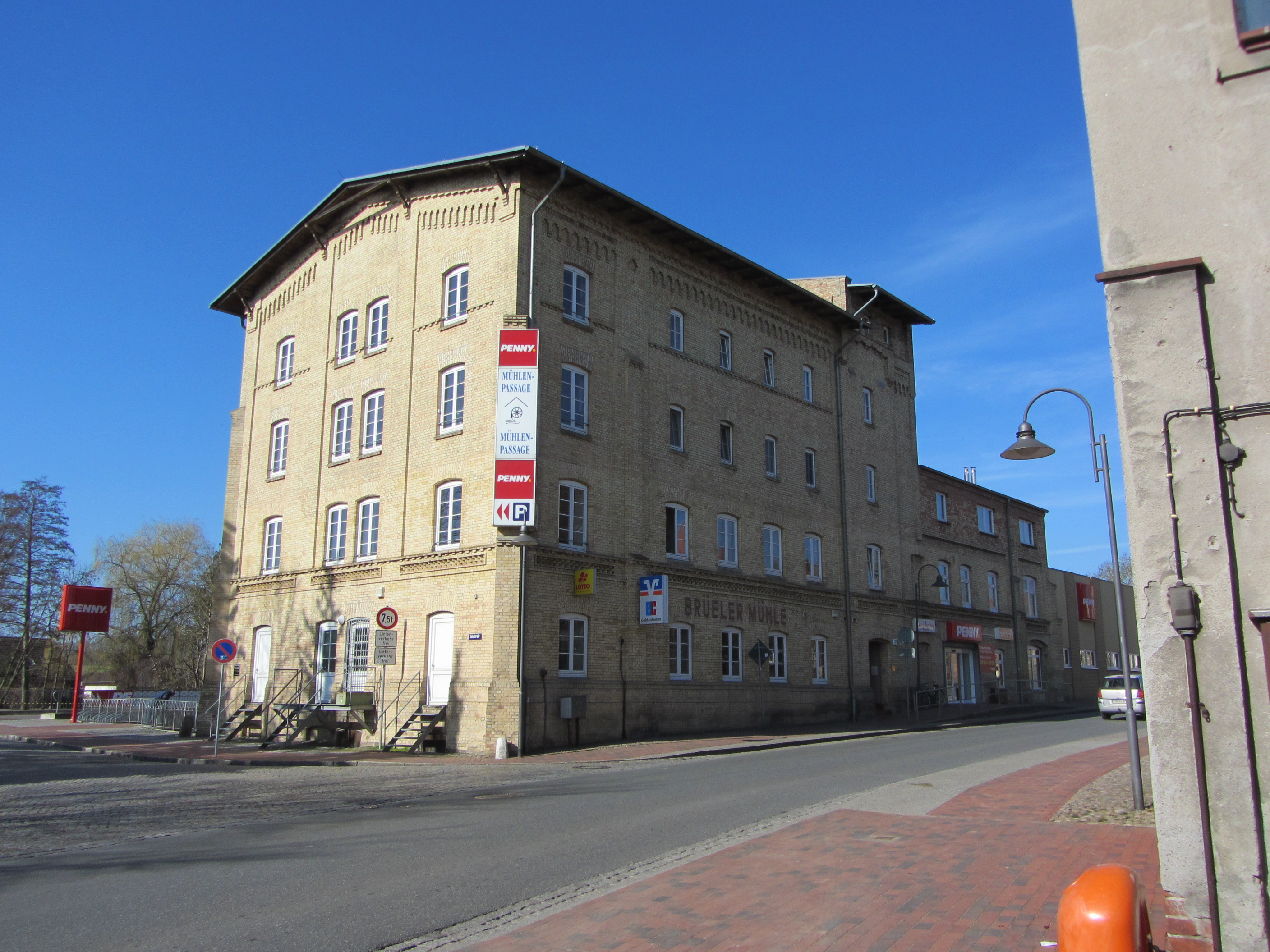 Watermill in Brüel, district Ludwigslust-Parchim, Mecklenburg-Vorpommern, Germany